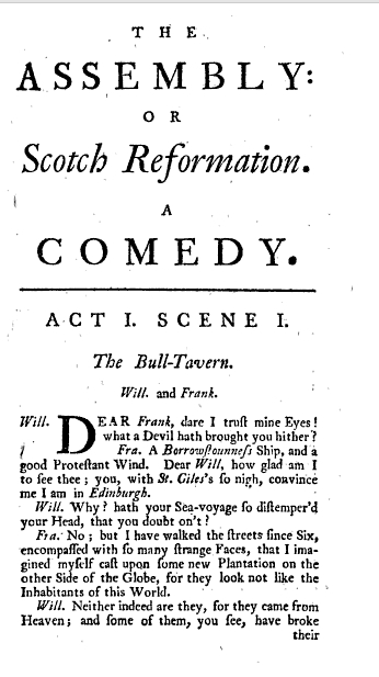 First page of the 1766 reprint of The Assembly by Archibald Pitcairn